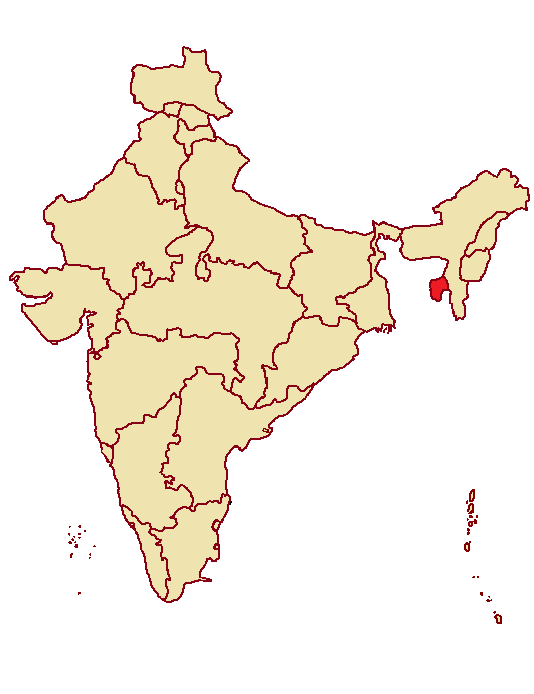 States and Union Territories of India, as of 1964-1965, i.e. between the creation of the state of Nagaland in 1963 and the Punjab Reorganization Act, 1966. Map does not include territories claimed by India but controlled by other countries. Borders not necessarily to scale. Based on File:States_of_India_(1964).png